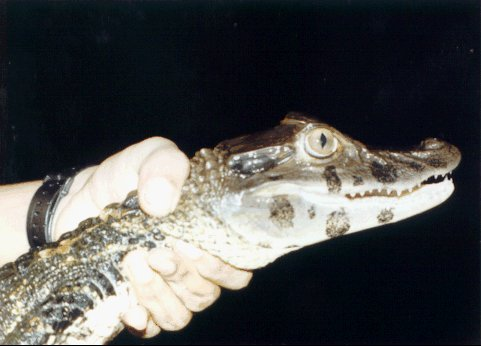 Photo of juvenile black caiman in Peru